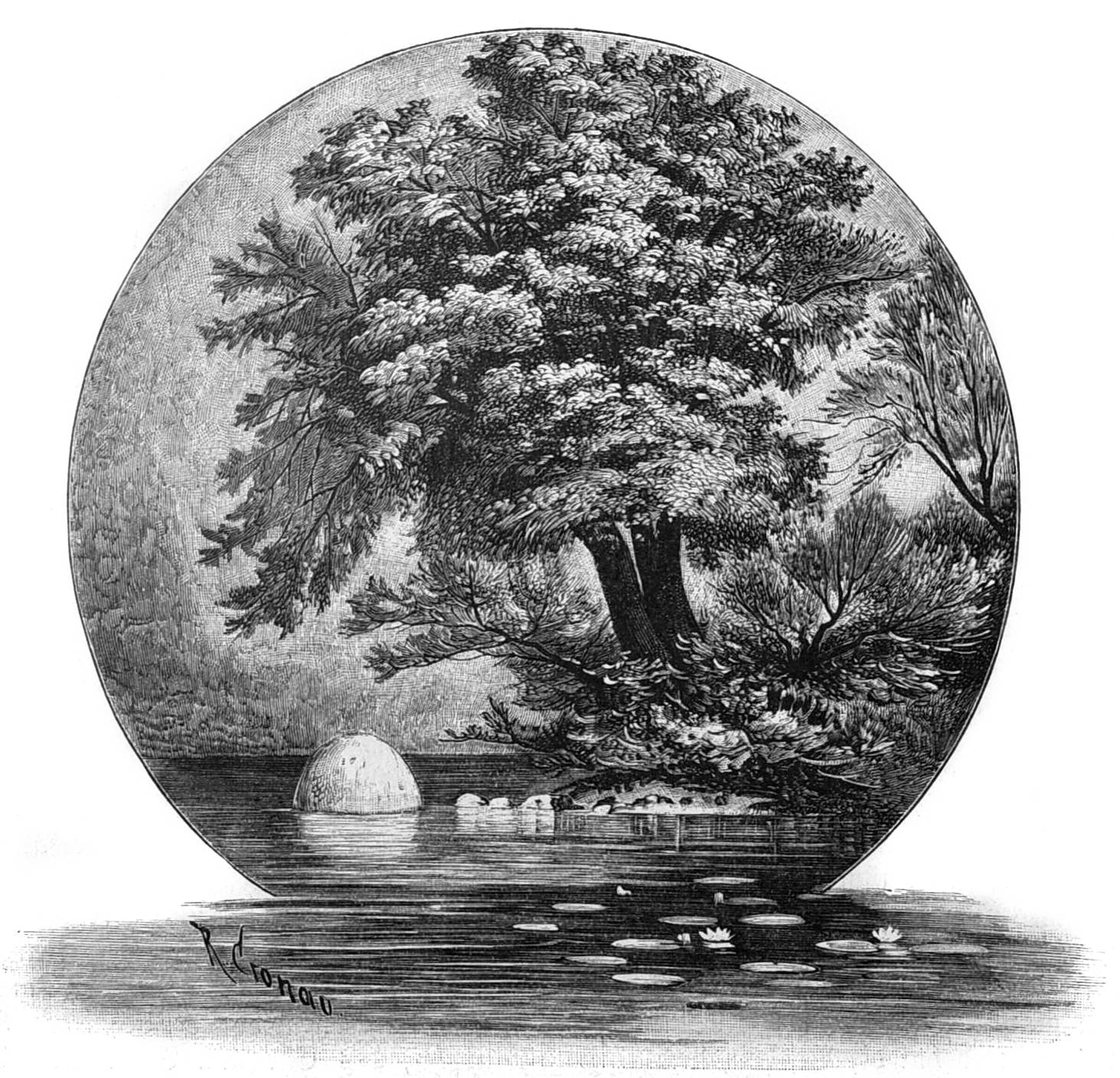 caption: "Der Chingachgookfelsen am Südende des Otsegosees."